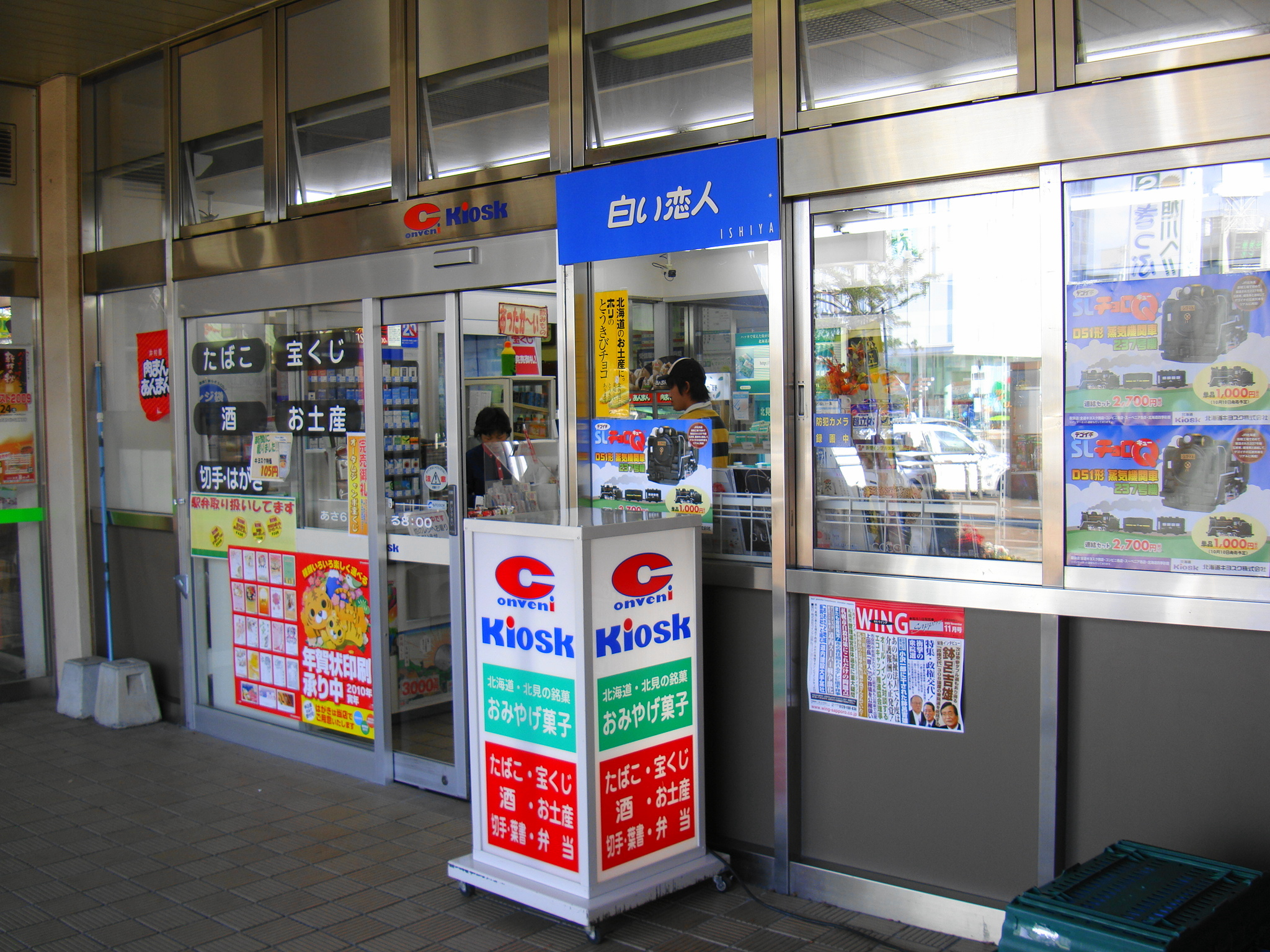 Hokkaidō Kiosk Kitami Station